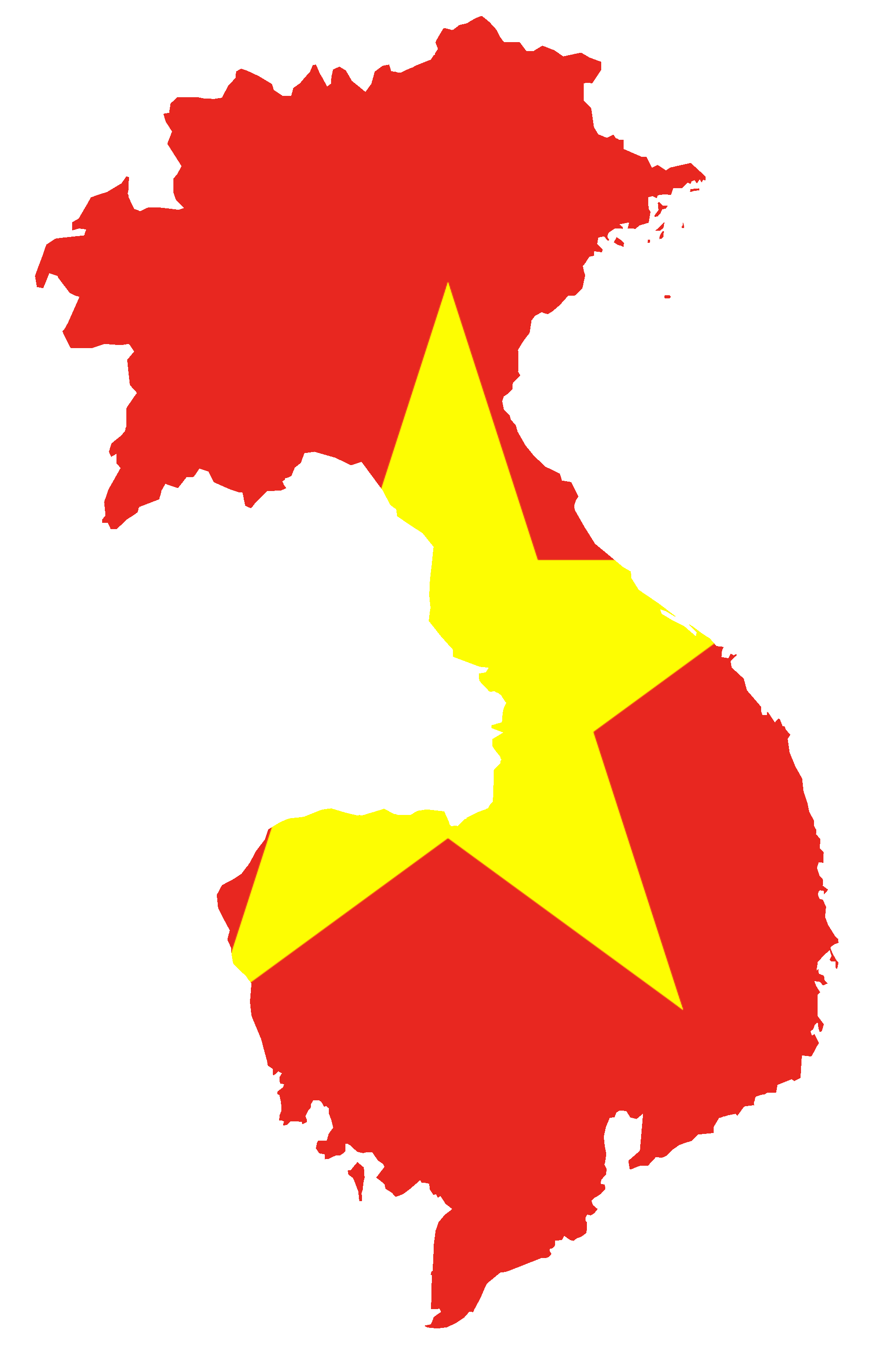 Flag map of Greater Vietnam